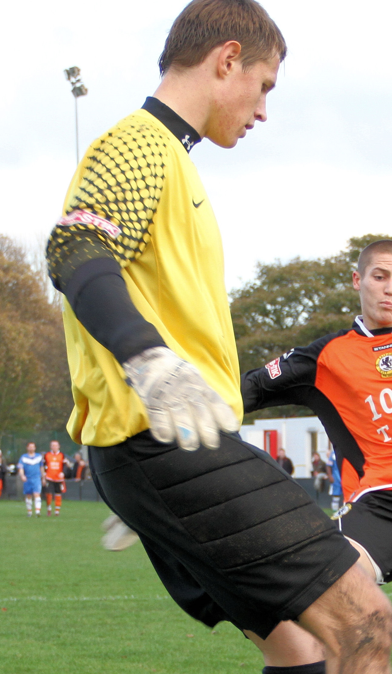 Chris Kettings playing for Woodley Sports against Salford City at Moor Lane, Salford on 12 November 2011